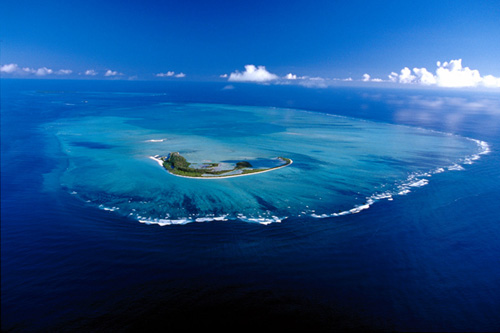 Aerial view of St. François Atoll from south, with St. François Island in the foreground. Outer Islands of the Seychelles